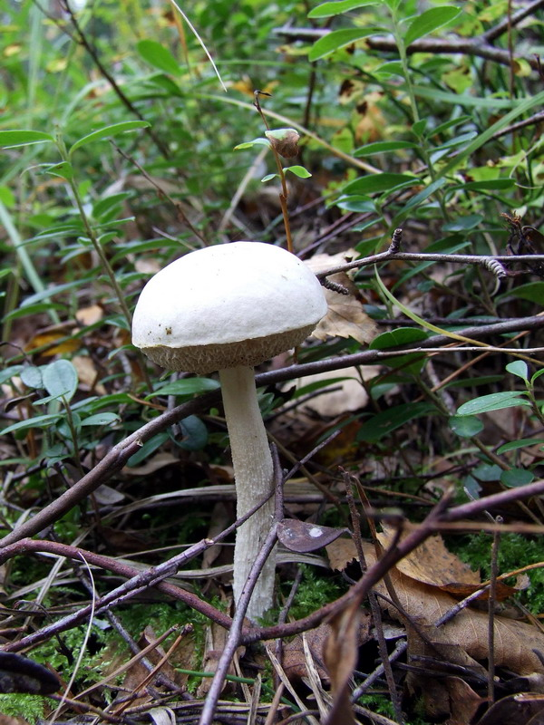 Leccinum holopus. Karmėlava forest, Lithuania.